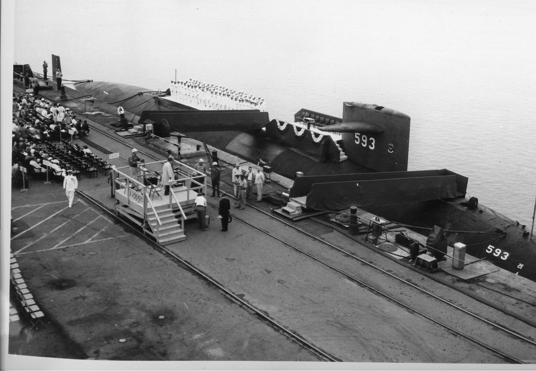 Dock yard workers and other officials setting up the commissioning platform for the Thresher (SSN-593), shortly before she was officially entered into the USN on 3 August 1961.